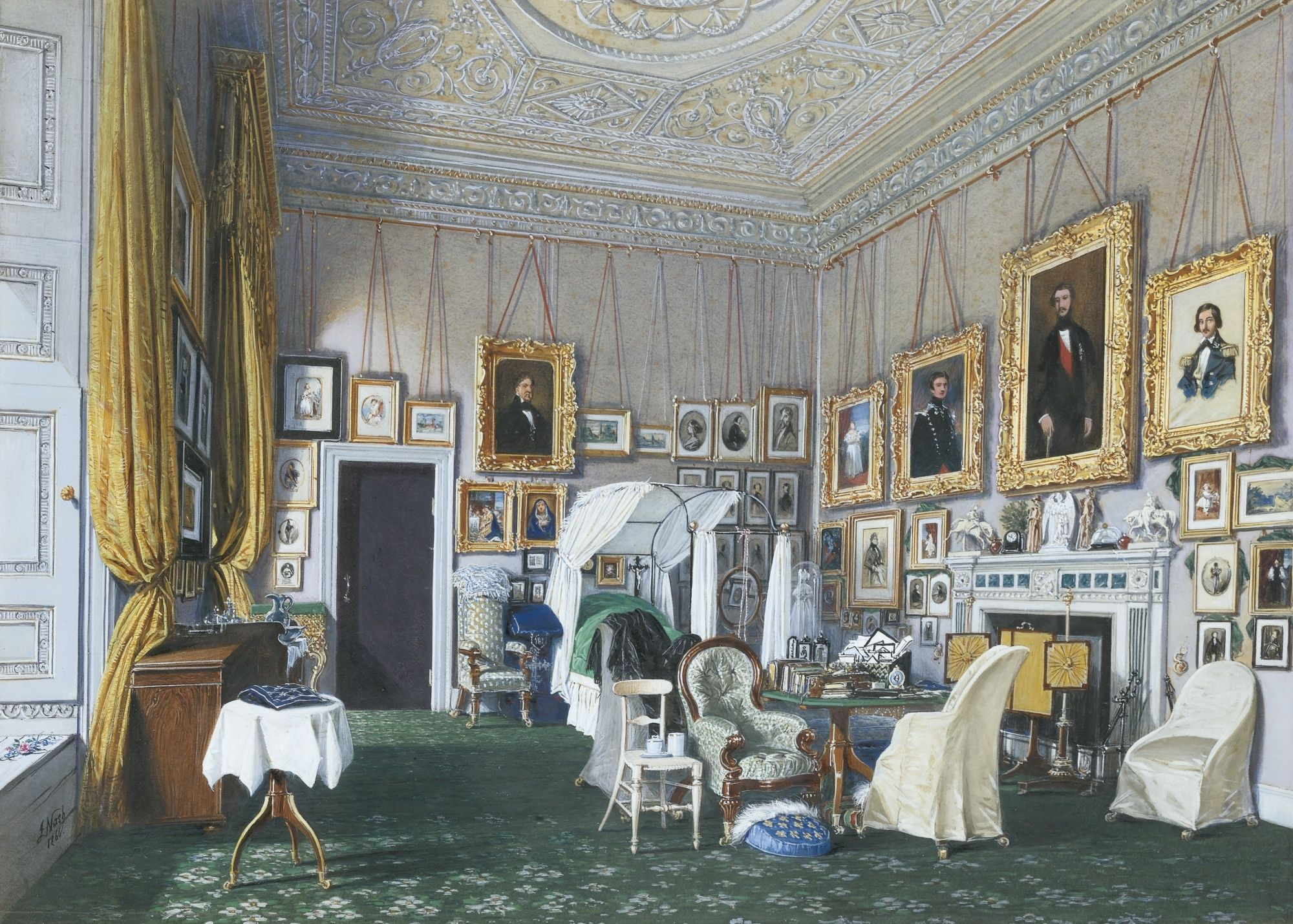 MARIE-AMÉLIE, QUEEN OF THE FRENCH'S BEDROOM AT CLAREMONT CASTLE, SURREY, by Joseph Nash.